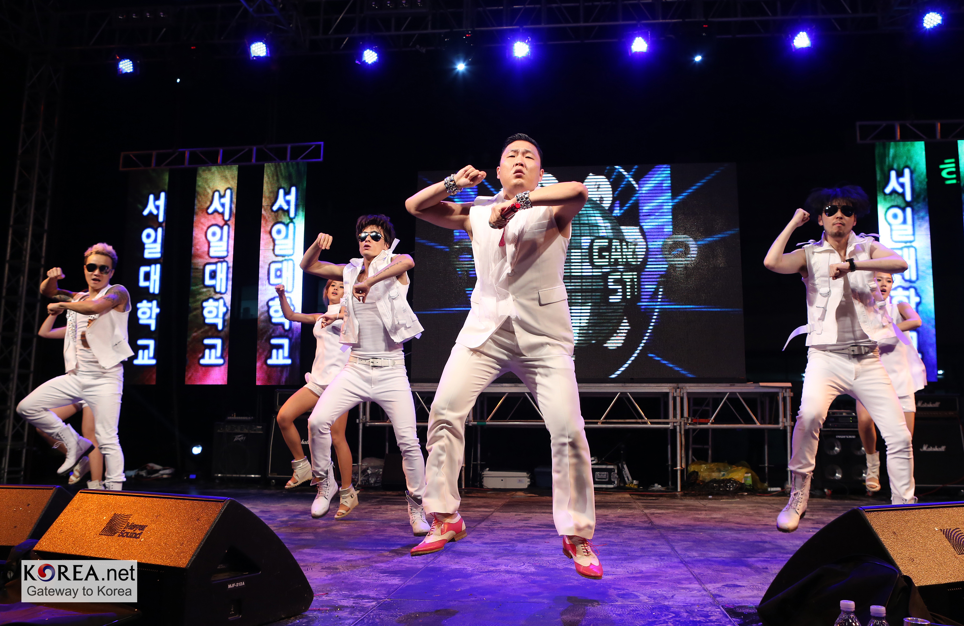 PSY ‘Gangnam Style’ at Seoul College, Seoul